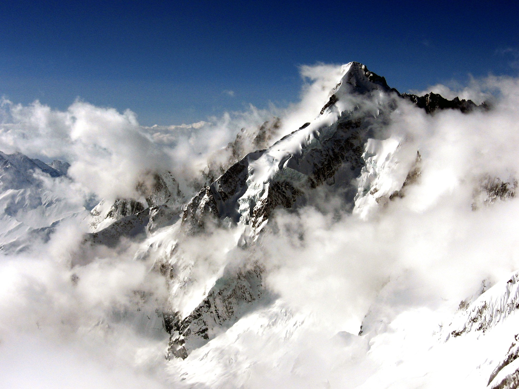 Mont Dolent from north